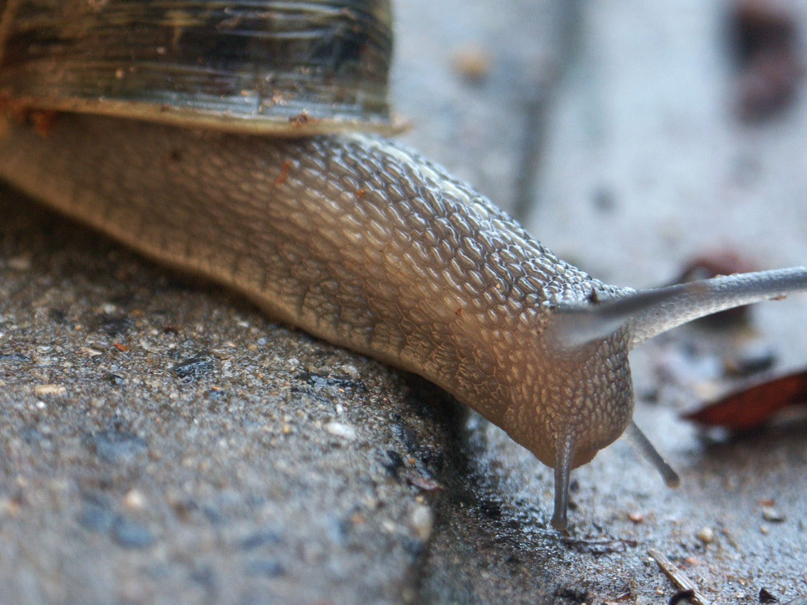 Garden Common snail gray wet macro close-up head Helix aspersa, most probably, determined 04 June 2011 by Francisco Welter-Schultes